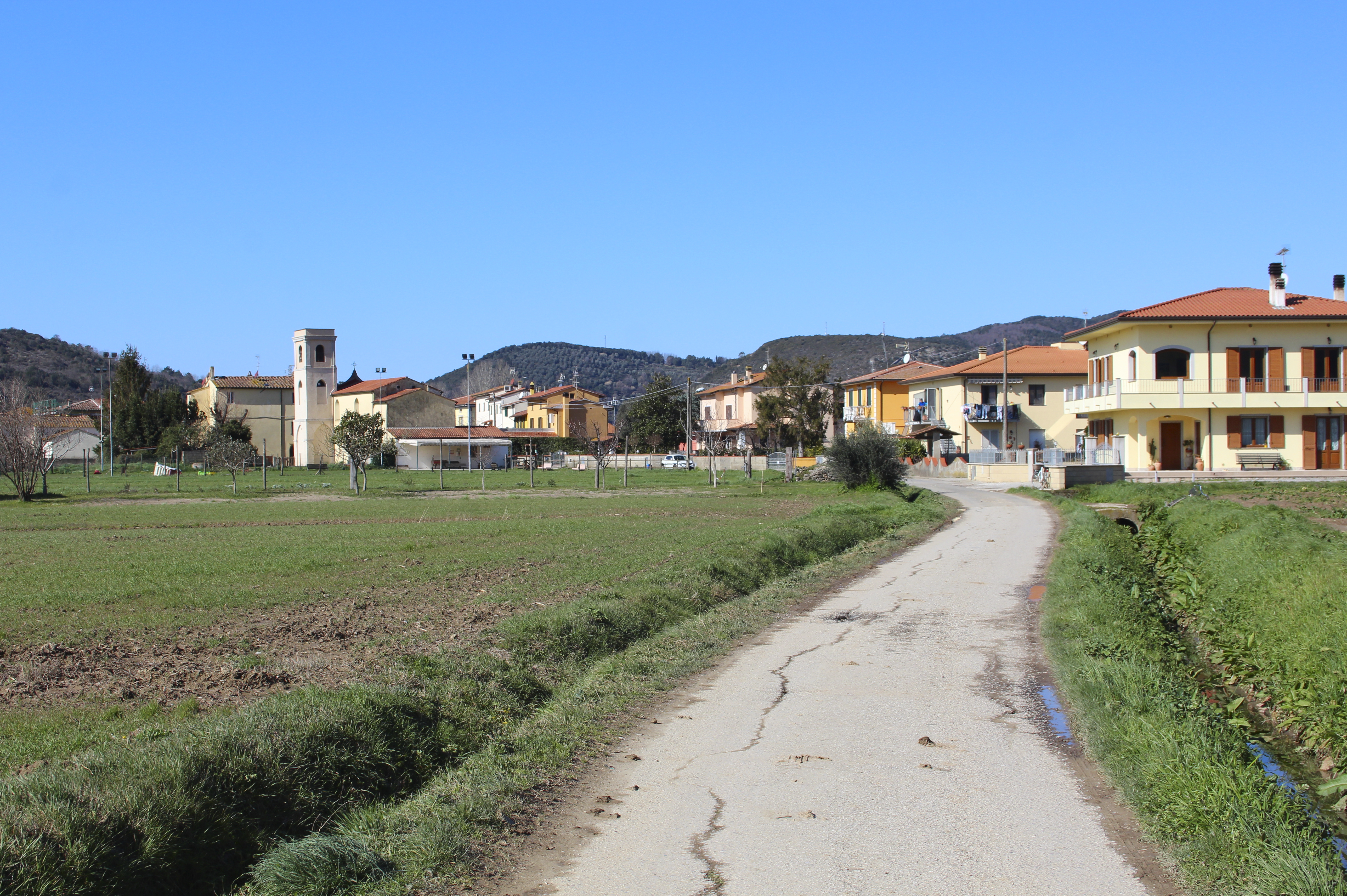 Colognole, hamlet of San Giuliano Terme, Province of Pisa, Tuscany, Italy